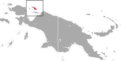 Biak Naked-backed Fruit Bat (Dobsonia emersa) range